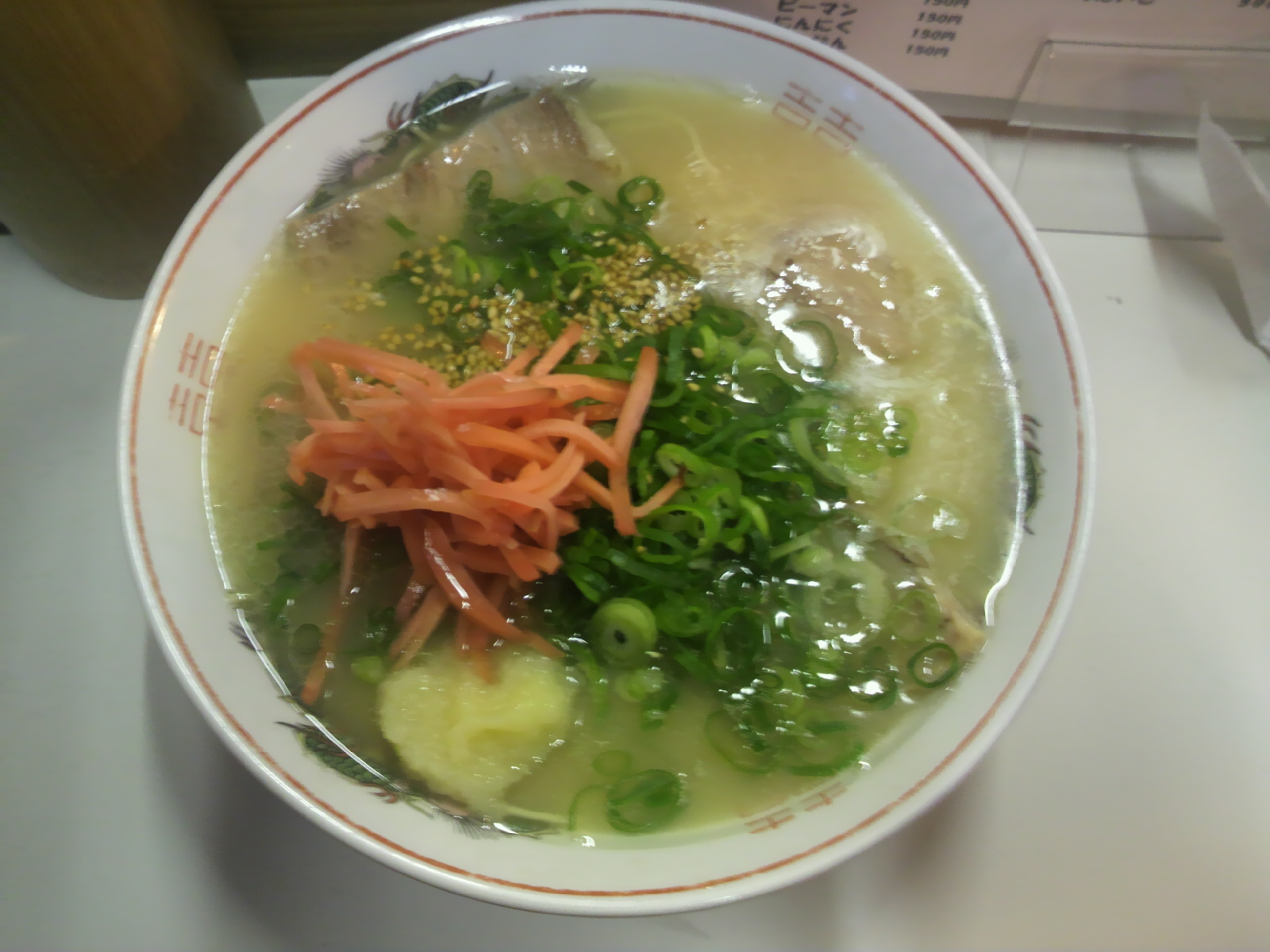 nagahama_Ramen